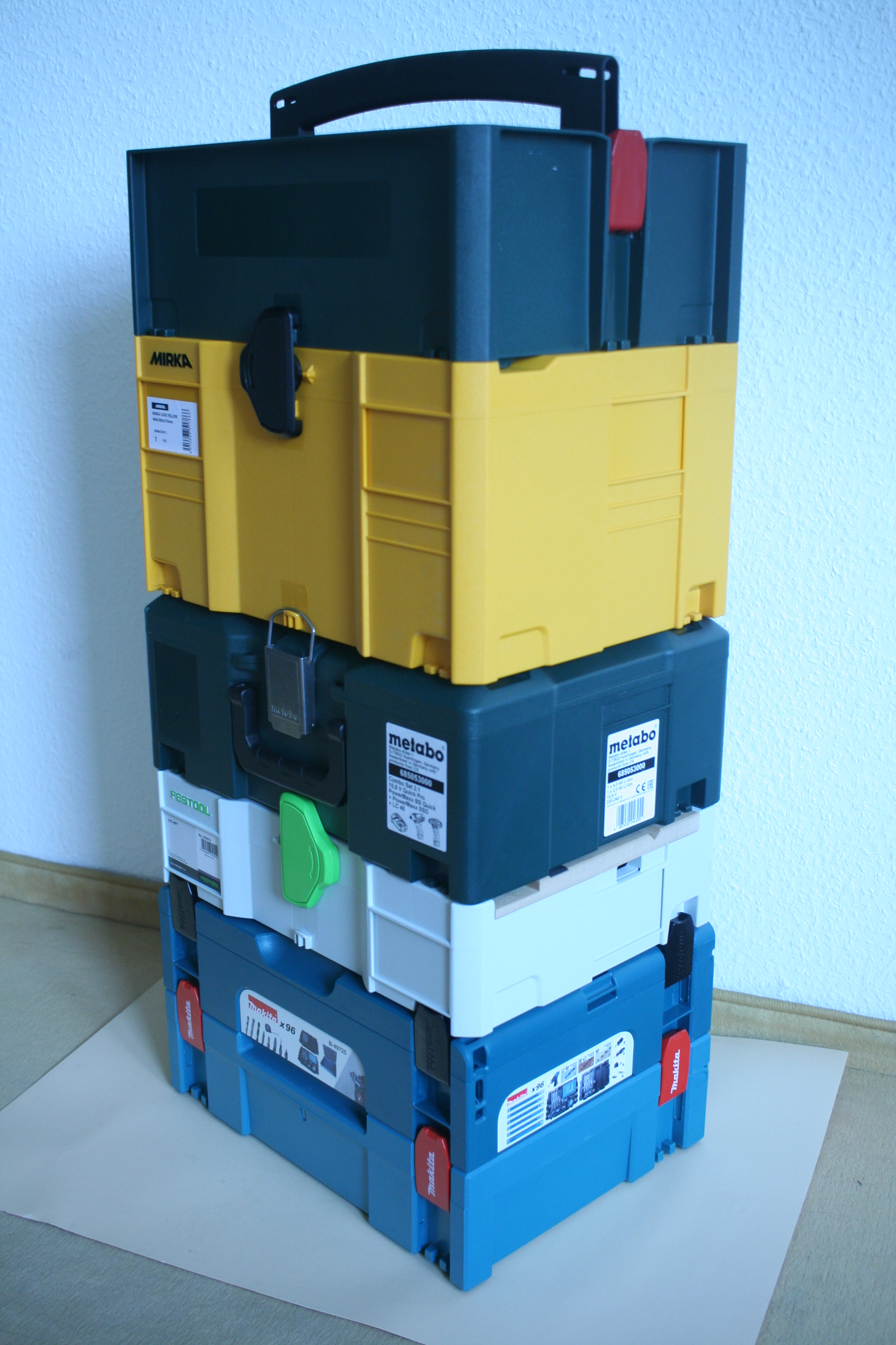 Stack of inter-stacking and inter-compatible plastic boxes used for transporting tools and power-tools. From bottom-to-top: Systainer Classic (size 1, light blue), made by Tanos with four Makita clips (bright red, white text) Makita Makpac (size 1, teal), in-house design with Makita clips (black, black text) Festool SYS-MFT (Multifunctional Table, size 1, white) with T-Loc rotating clip (bright green) Metabo Metaloc (size 2, dark green), in-house design with Metaloc metal clip (silver) Mirka T-Loc (size 3, yellow), with T-Loc rotating clip (black) Systainer Toolbox (size, medium green), with two side clips (dark red) and fixed handle (black)